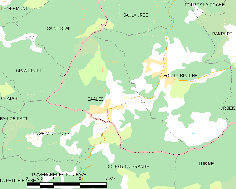 Map of French municipality